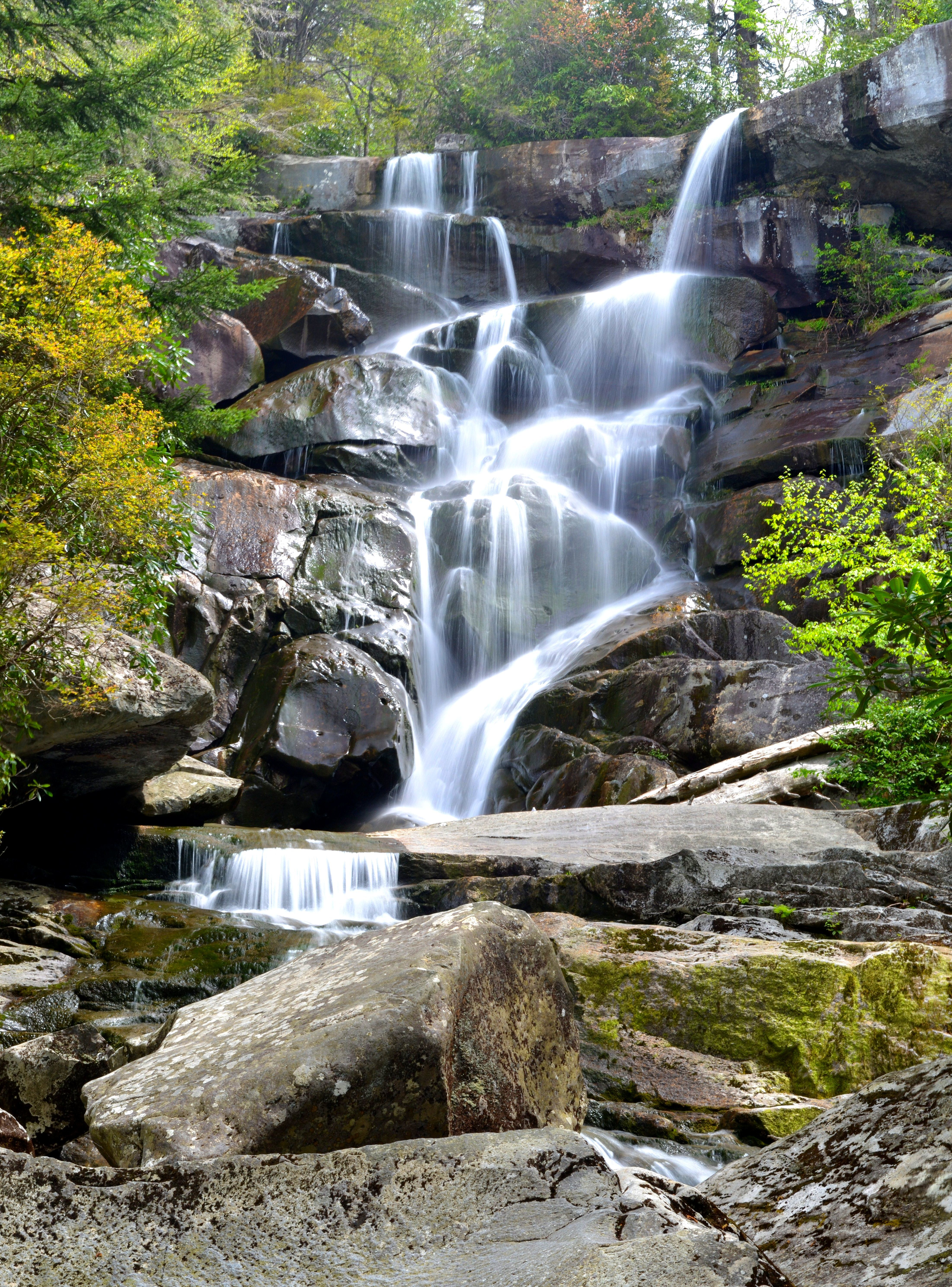 Photo of Ramsey Cascades